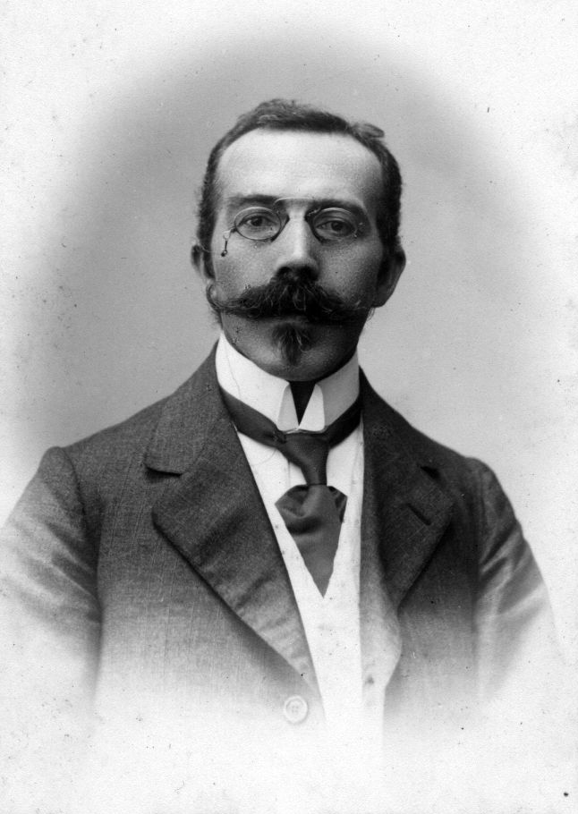 Josef Markwart (born: Josef Marquart, Reichenbach, Germany). German professor in linguistics (persian, armenian). Photo was taken during his stay at Leiden, Netherlands, at the "Rijksmuseums voor Volkenkunde".